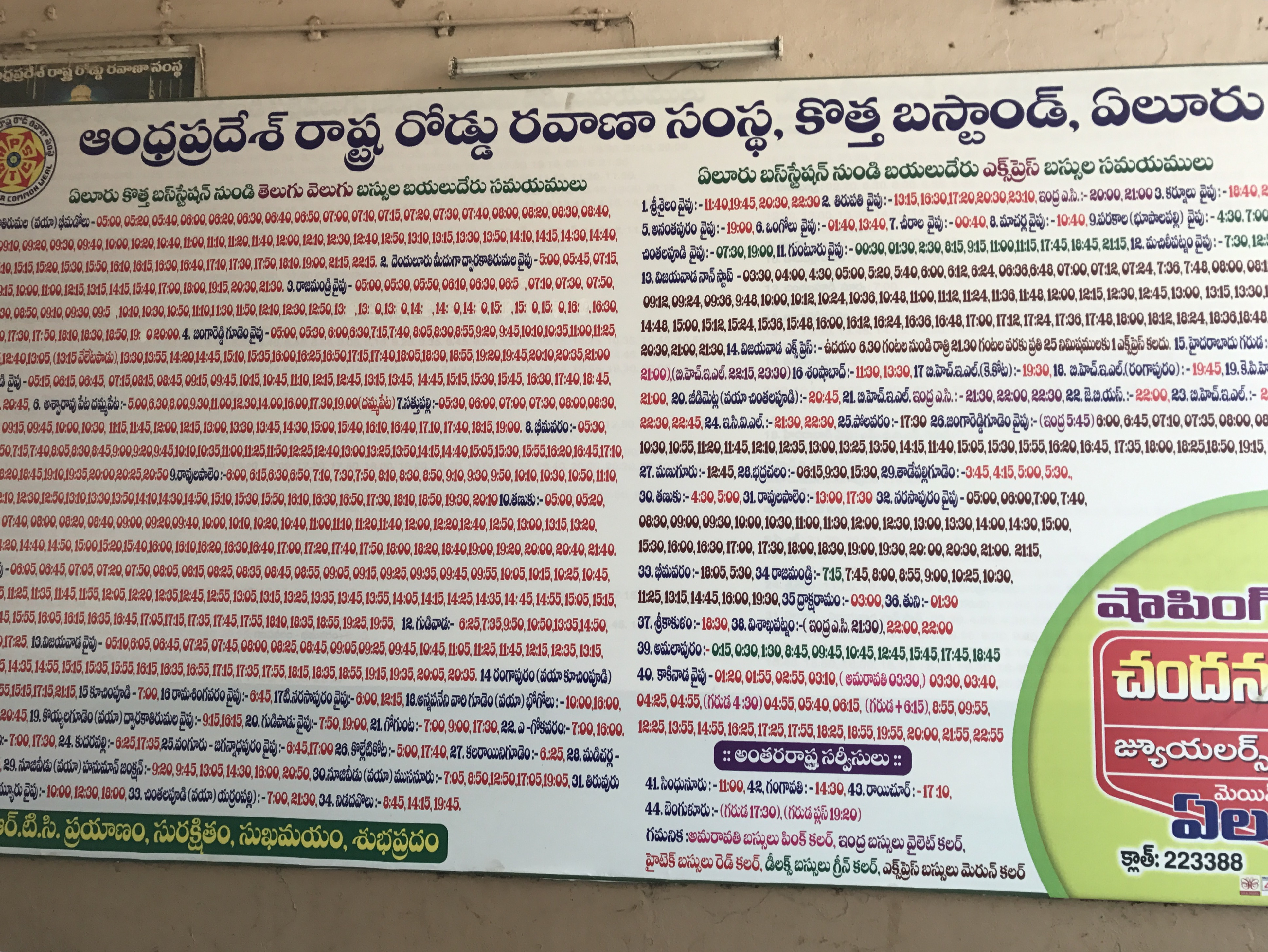 APS RTC bus timings